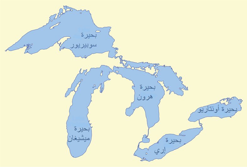 خريطة البحيرات العظمى في أمريكا الشمالية Map of the Great Lakes.